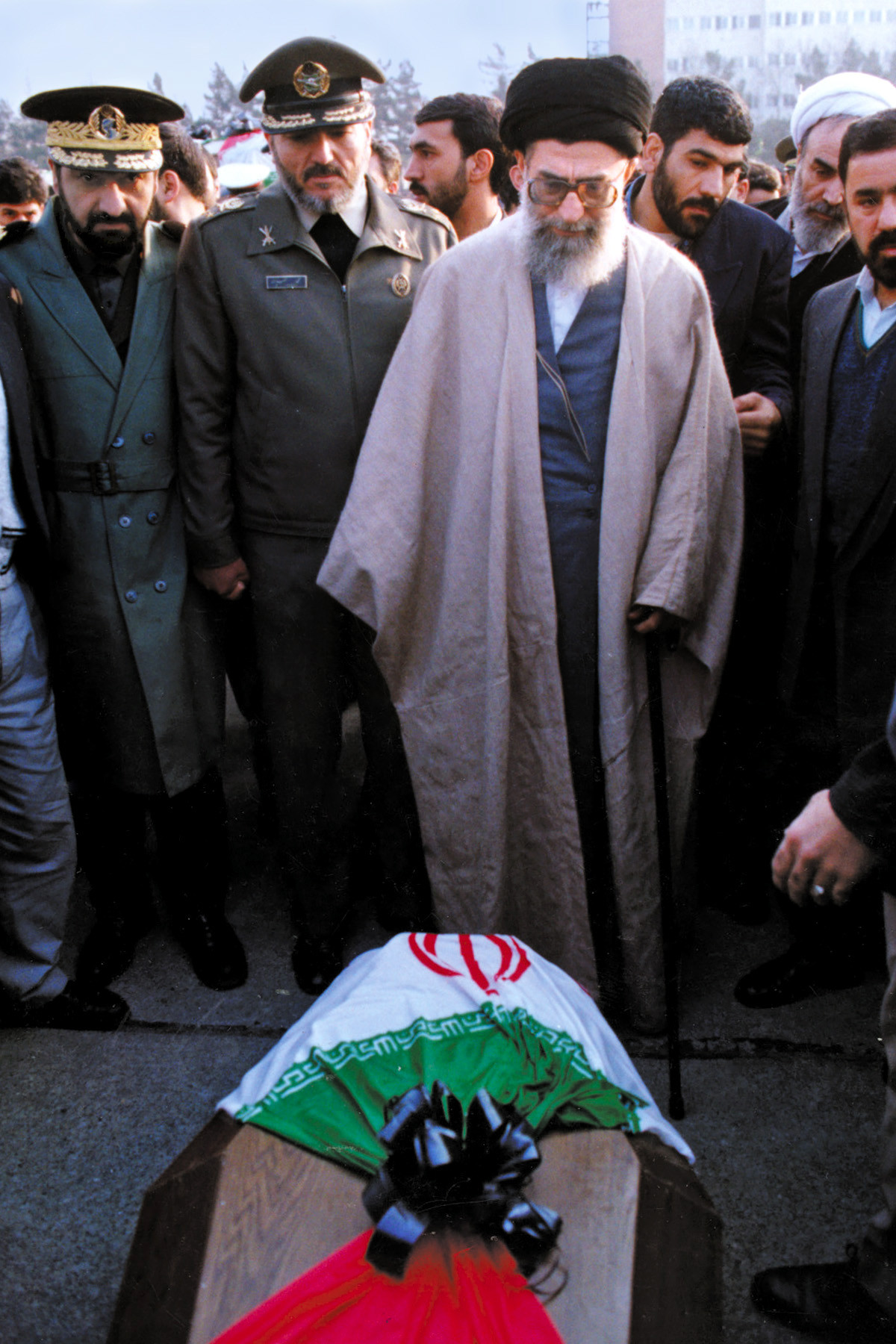 Supreme Leader Ali Khamenei at the funeral of commanders of the Air Force